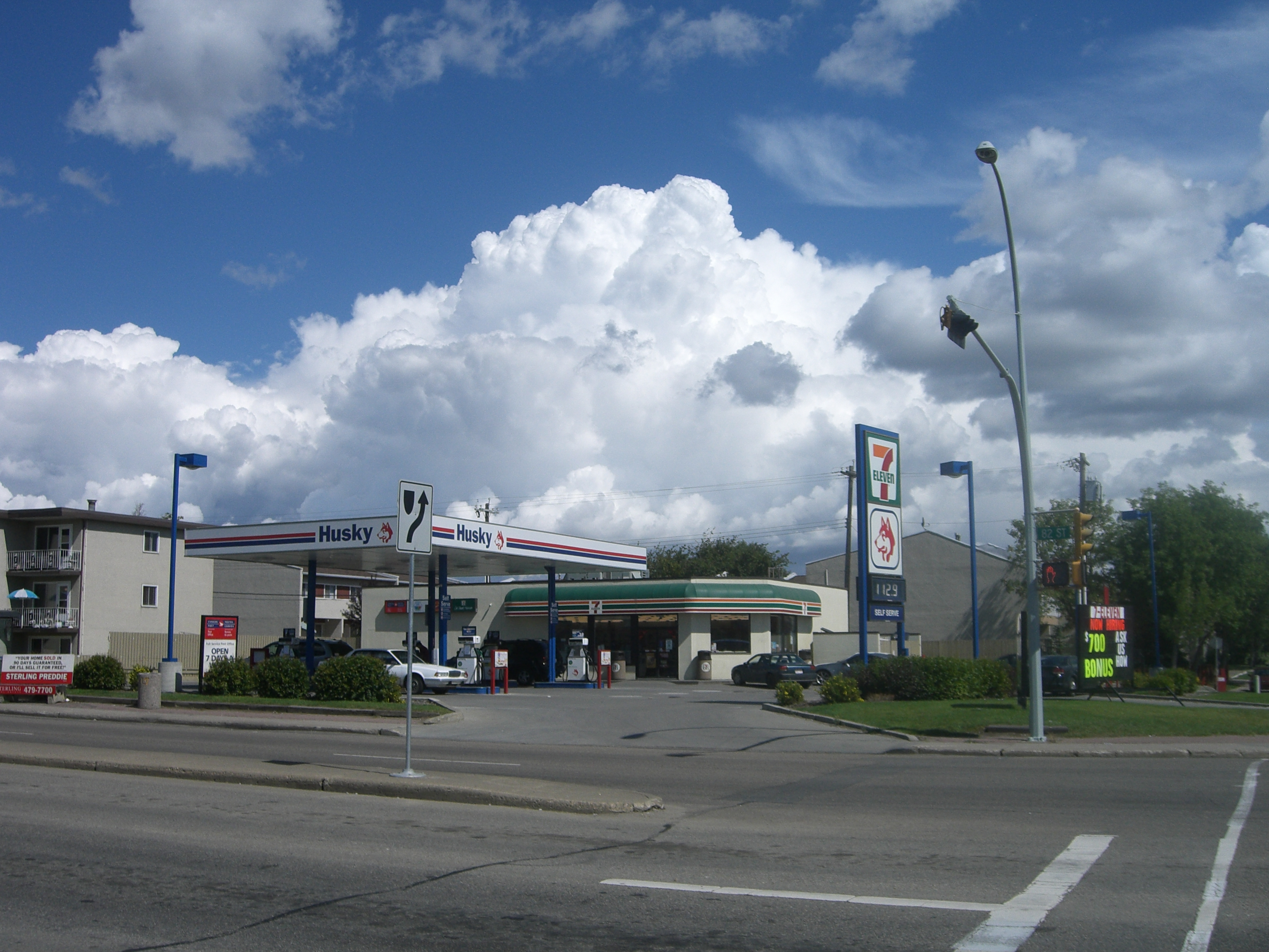 82st Edmonton Alberta Canada, August 12th 2006